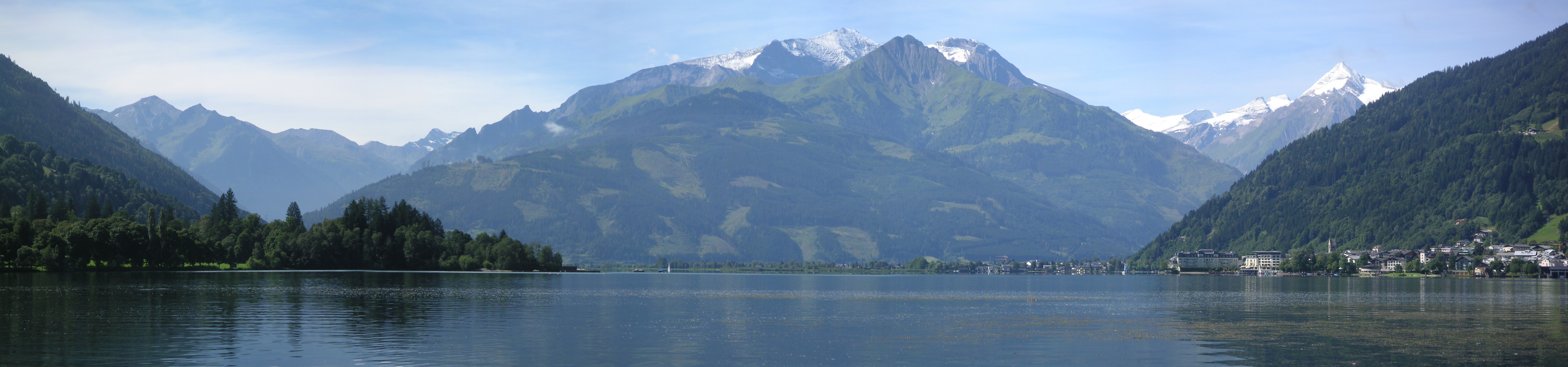 Panorama of Zell am See from the other end of Zeller See